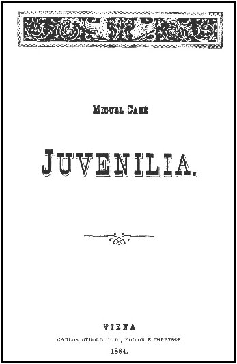 Cover for the first edition of "Juvenilia", written by Miguel Cané.